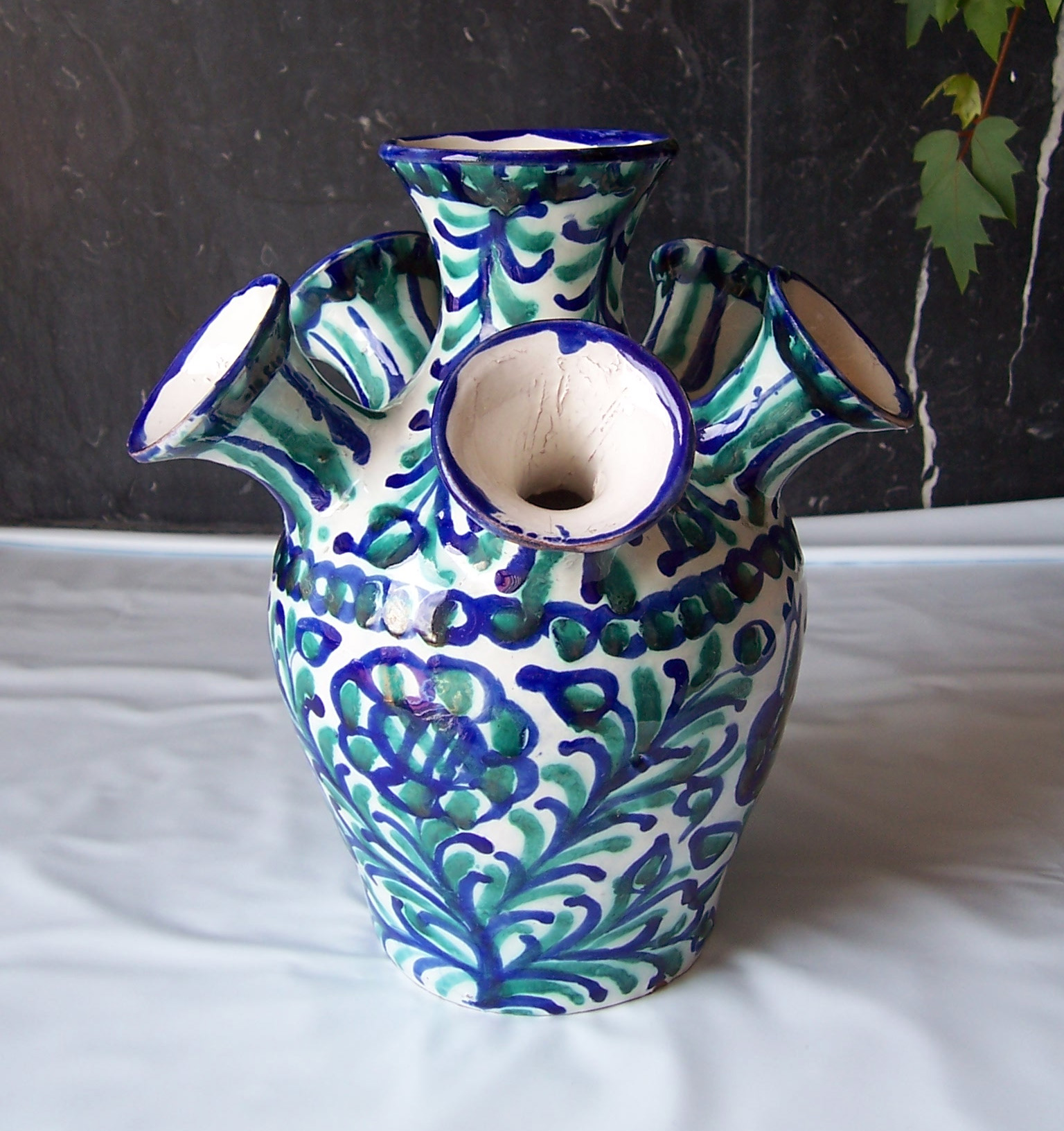 Ceramic from Fajalauza in Granada, Spain.